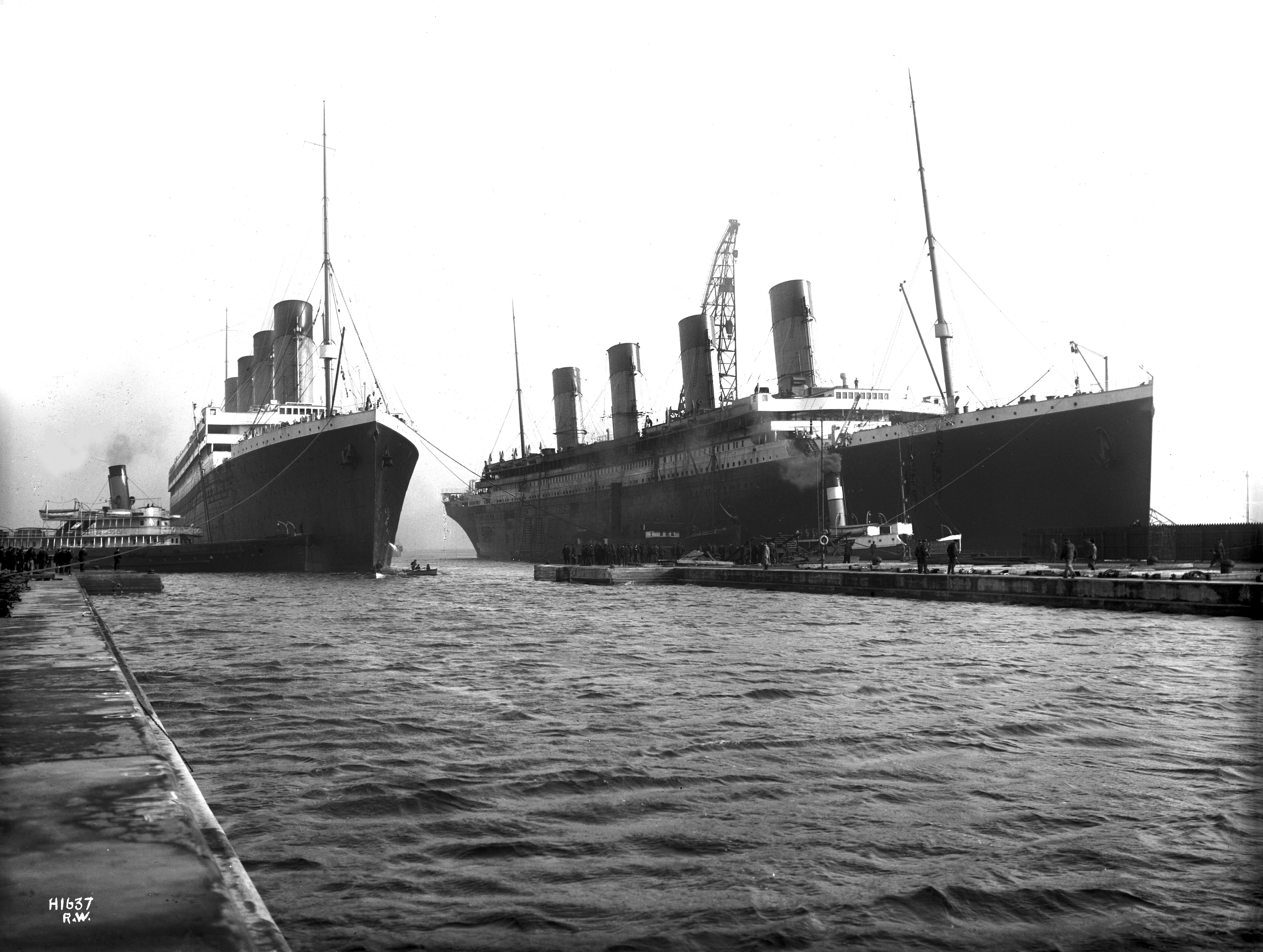 March 6, 1912: Titanic (left) had to be moved out of the drydock so her sister Olympic (right), which had lost a propeller, could have it replaced.